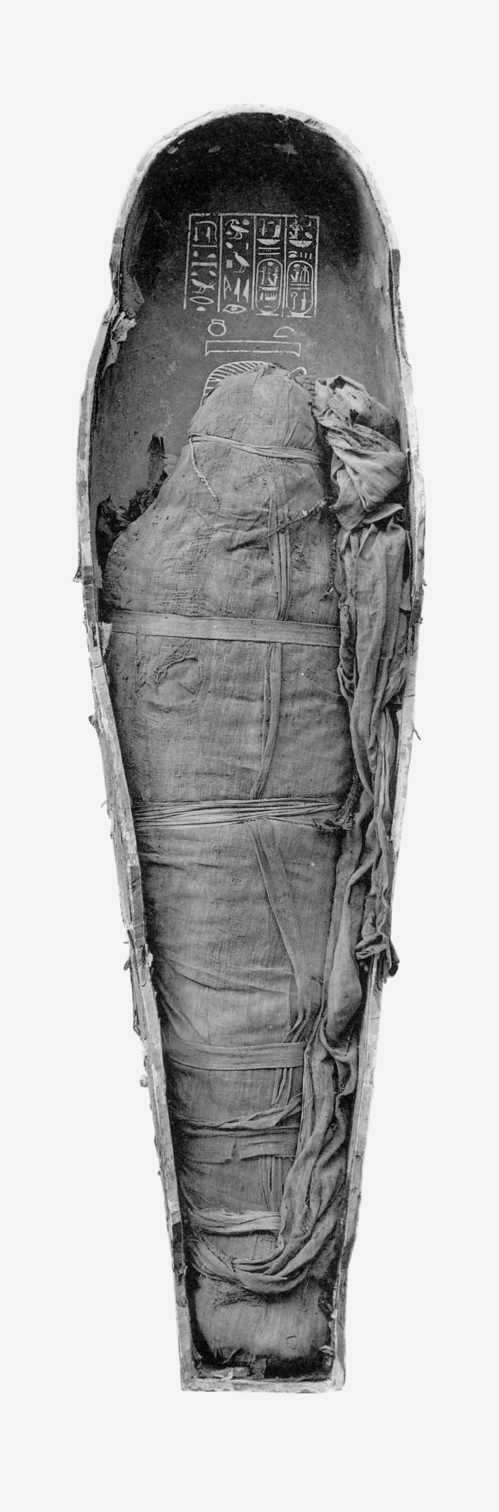 Mummy of parapoh Amenhotep III.